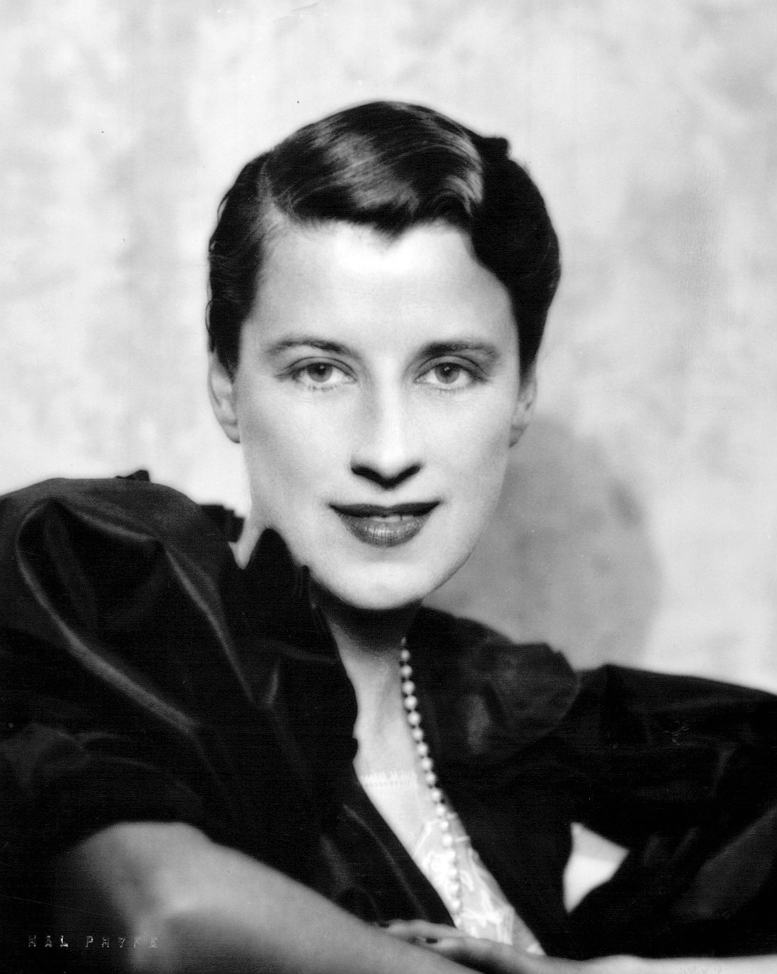 Photo of actress Beatrice Lillie.